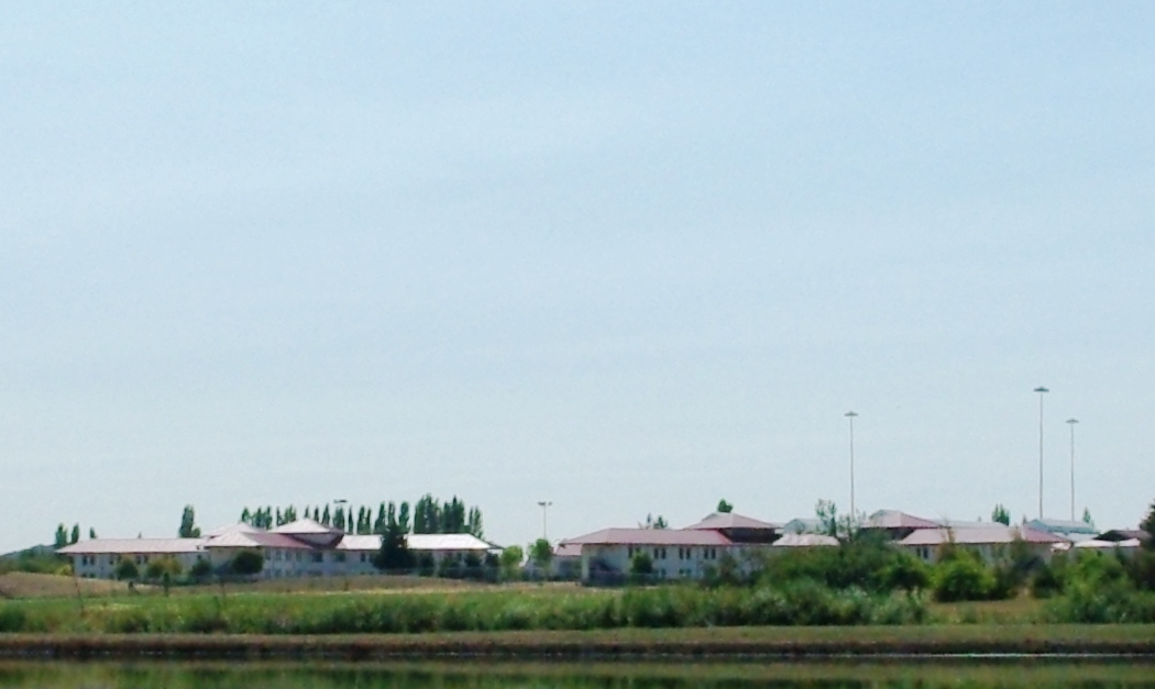 Federal Correctional Institution, Sheridan, in Oregon, USA.